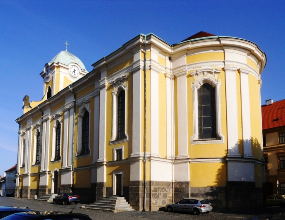 Úštěk, St Peter and Paul church (1764-72)